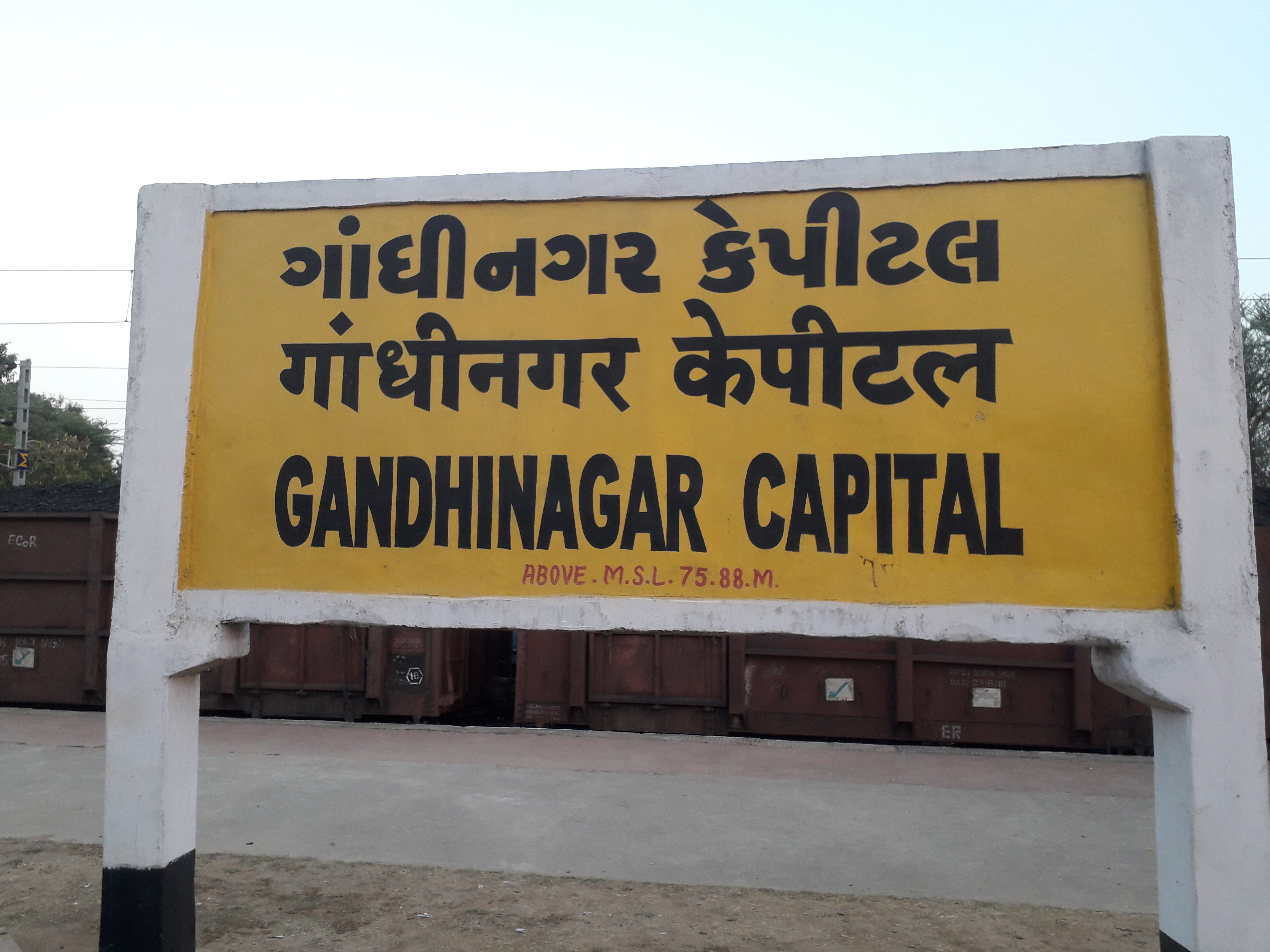 Gandhinagar Capital Gujarat - Stationboard